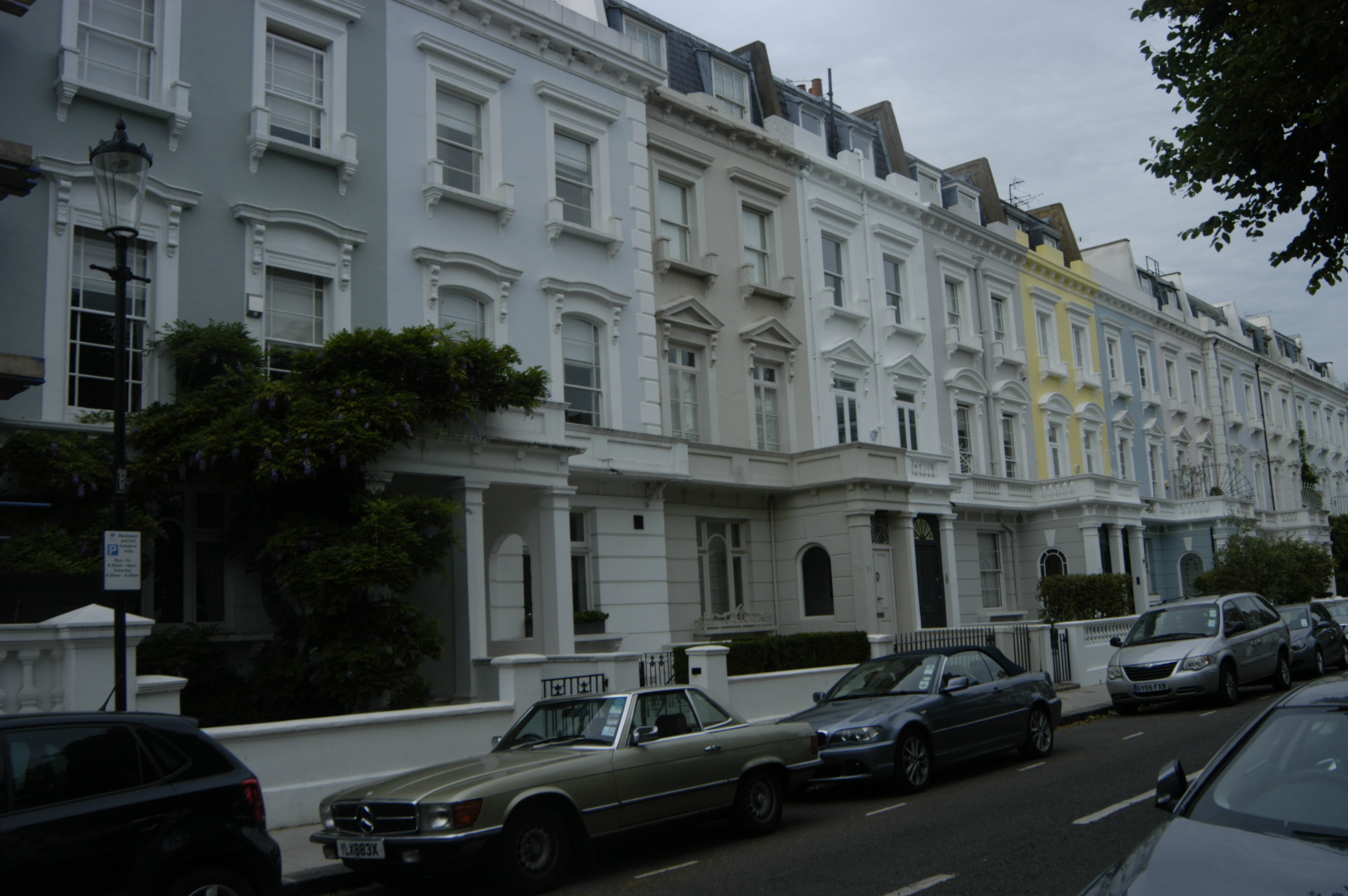 Photo (taken by me, R. de Salis, Rodolph (talk) 12:58, 14 July 2014 (UTC)) of Priory Walk, formerly Priory Grove, London, Kensington, SW10, featuring no.10 (third from the left), home to 8th Count and birth place of 9th Count de Salis.